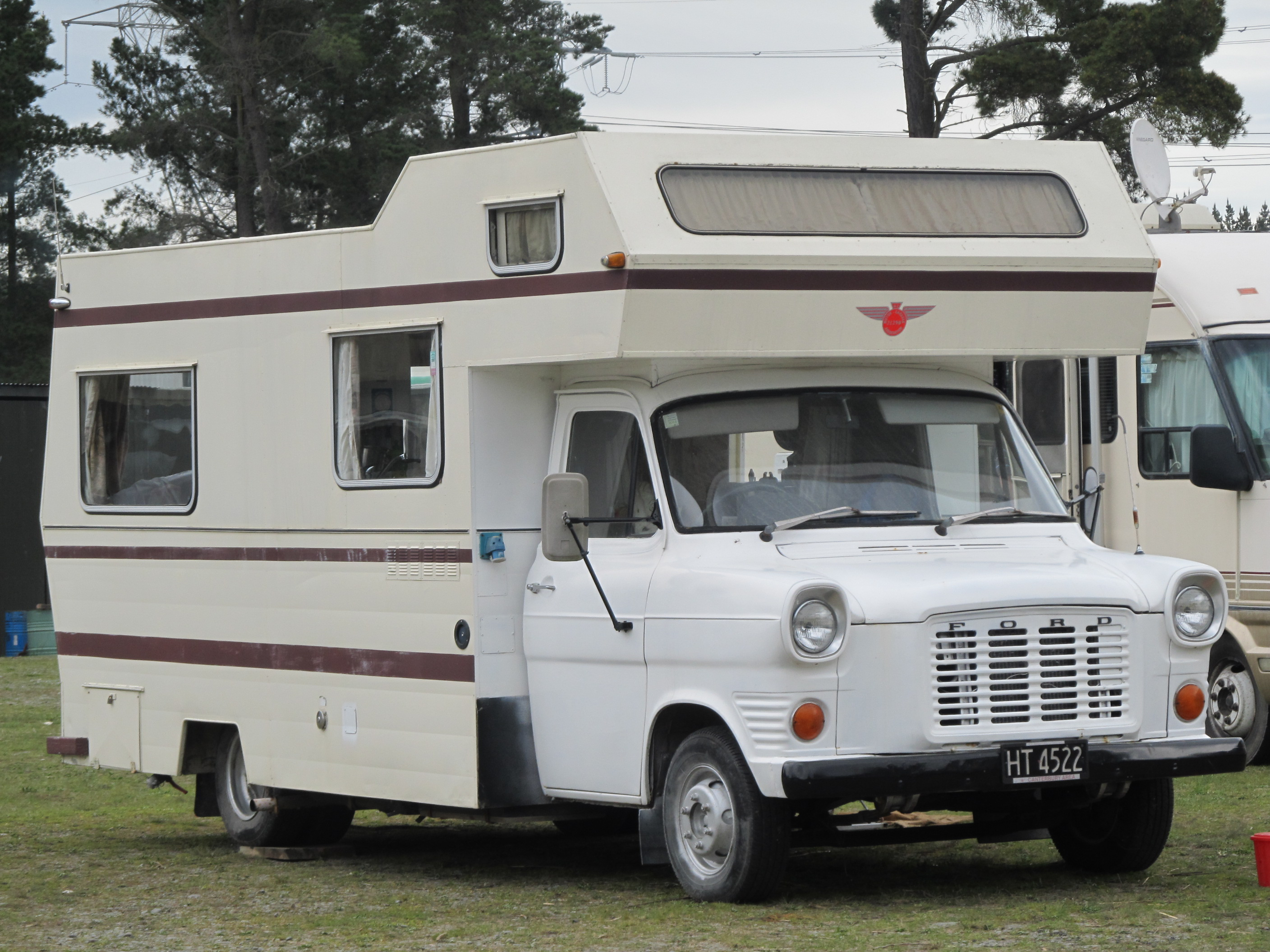 HT4522 Mk1 and 2 Transit campers are fairly rare in NZ, at least compared to the ubiquitous Bedford CF, which is still a common sight in camper form, so this was a pleasing spot. It was the only Transit camper at this festival, all the other older campers were Bedfords...